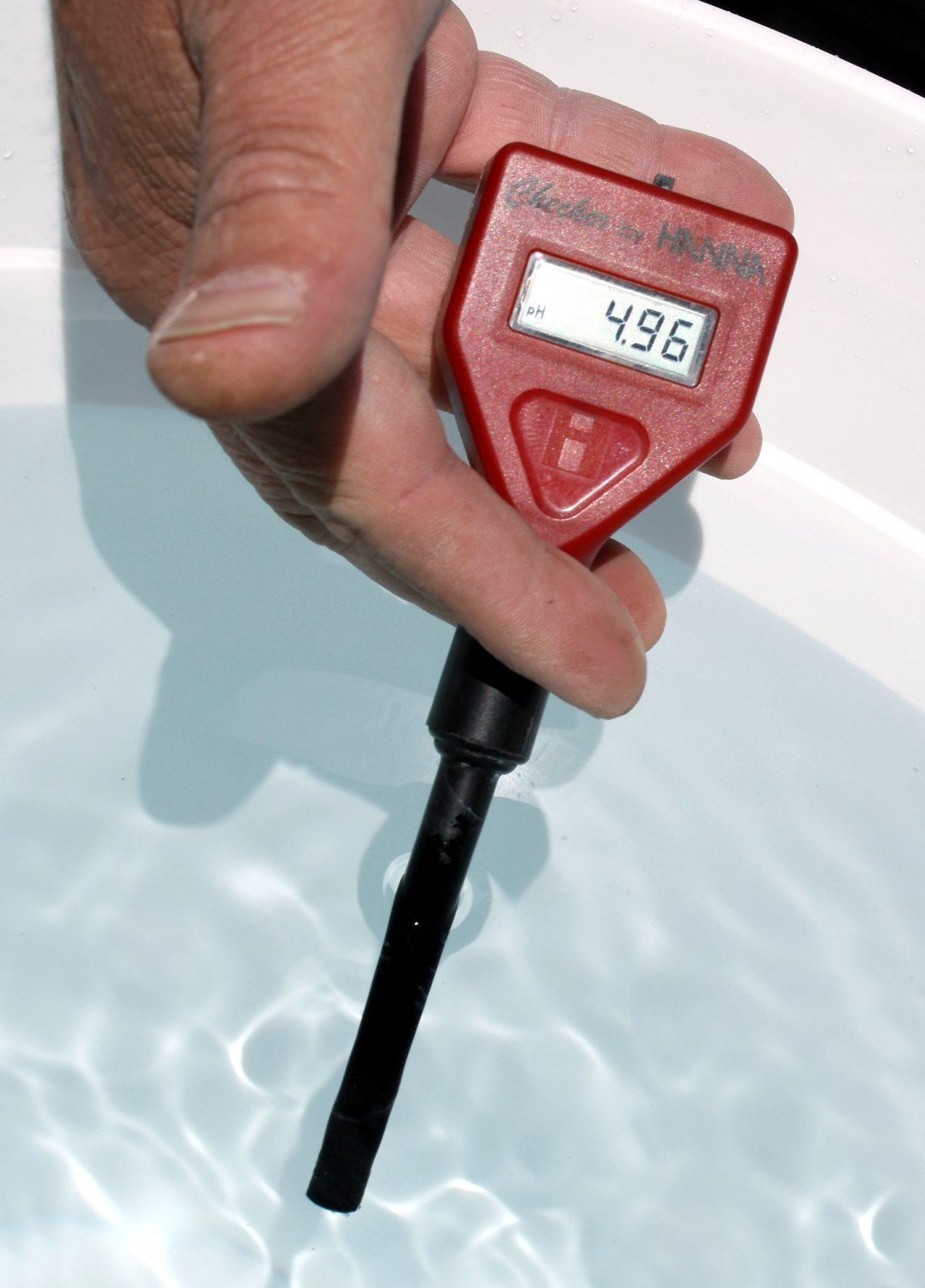 Rix Dobbs uses a pH meter to measure the acidity of water in a bucket.